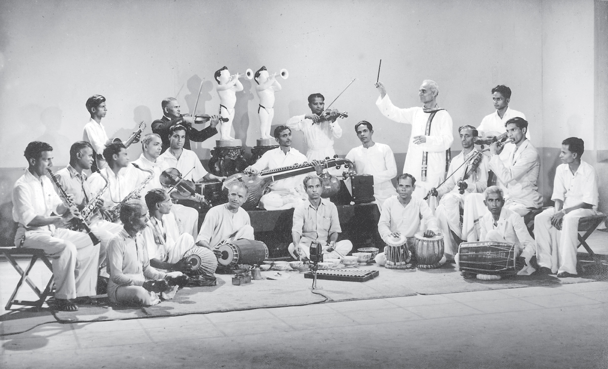 MDP Music orchestration